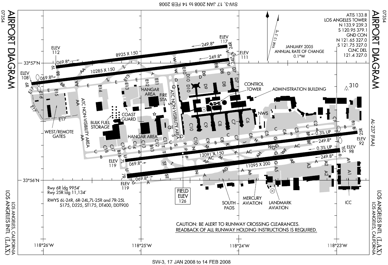 A picture of Los Angeles International Airport's Airport Diagram